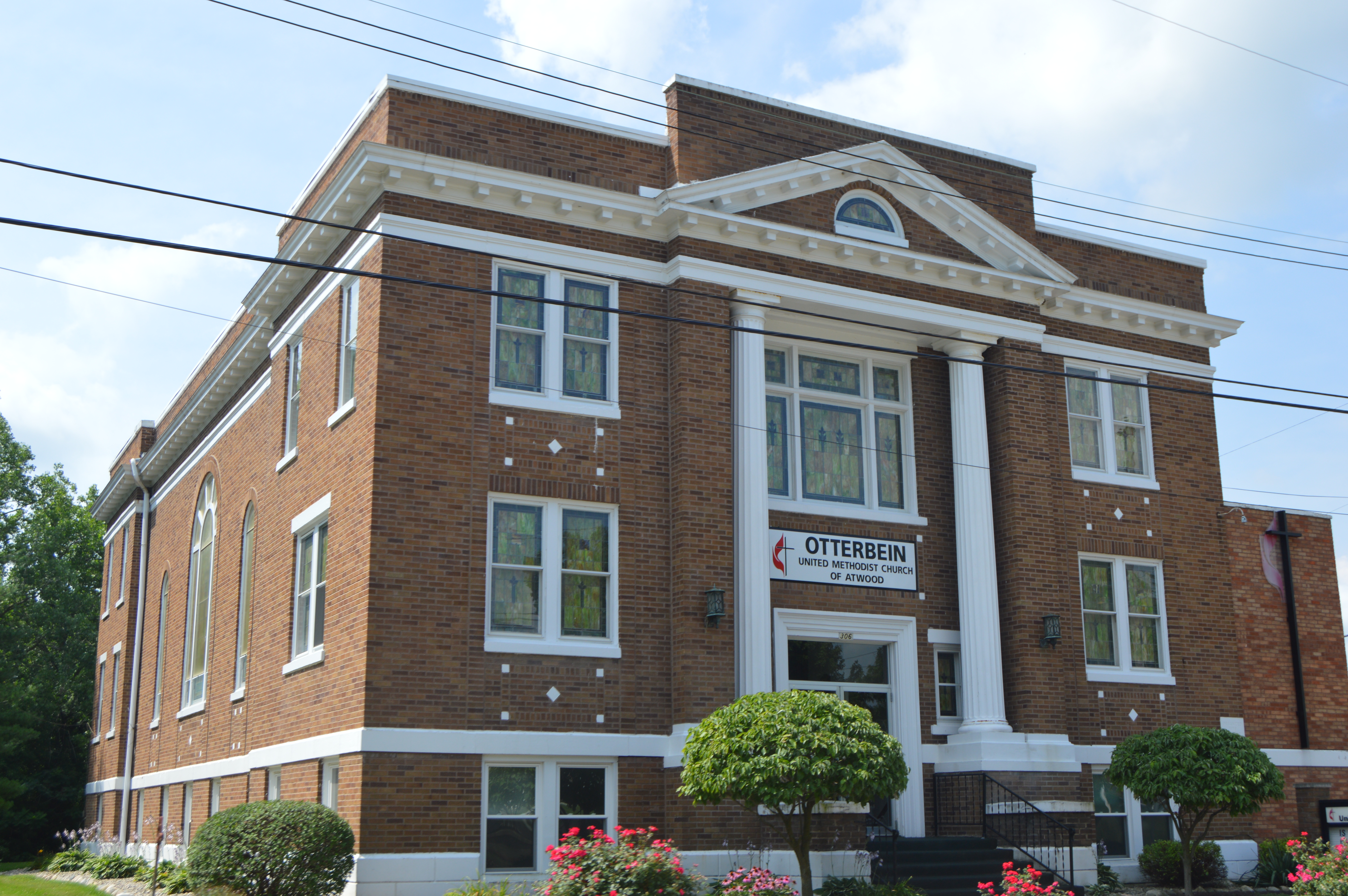 Front of Otterbein United Methodist Church (formerly EUB), located at the intersection of Main and Prairie Streets in Atwood, Indiana, United States. It was built in 1926.